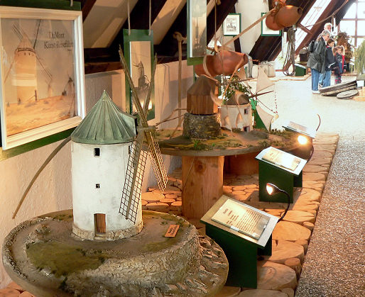 Exhibition hall at the International Windmill and Watermill Museum in Gifhorn, Germany, October 2005